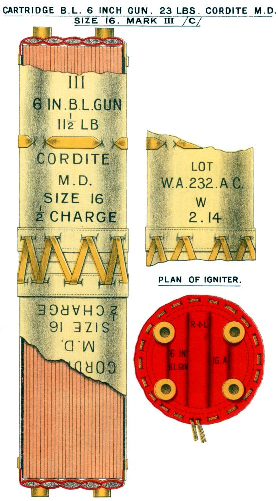 Mk III Cordite M.D. (size 16) cartridge for British BL 6 inch Gun, 1914. The charge is made up of 2 1/2 charges laced together. Total 23 lb Cordite M.D. Length of each 1/2 charge 12.75 inches, diameter 5.75 inches. Total length 25.5 inches. For use in the following guns :- BL 6 inch Gun Mk VII & VIII land and Naval service, except on Mk II twin Naval mountings.